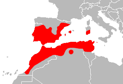 Hemorrhois hippocrepis range map.